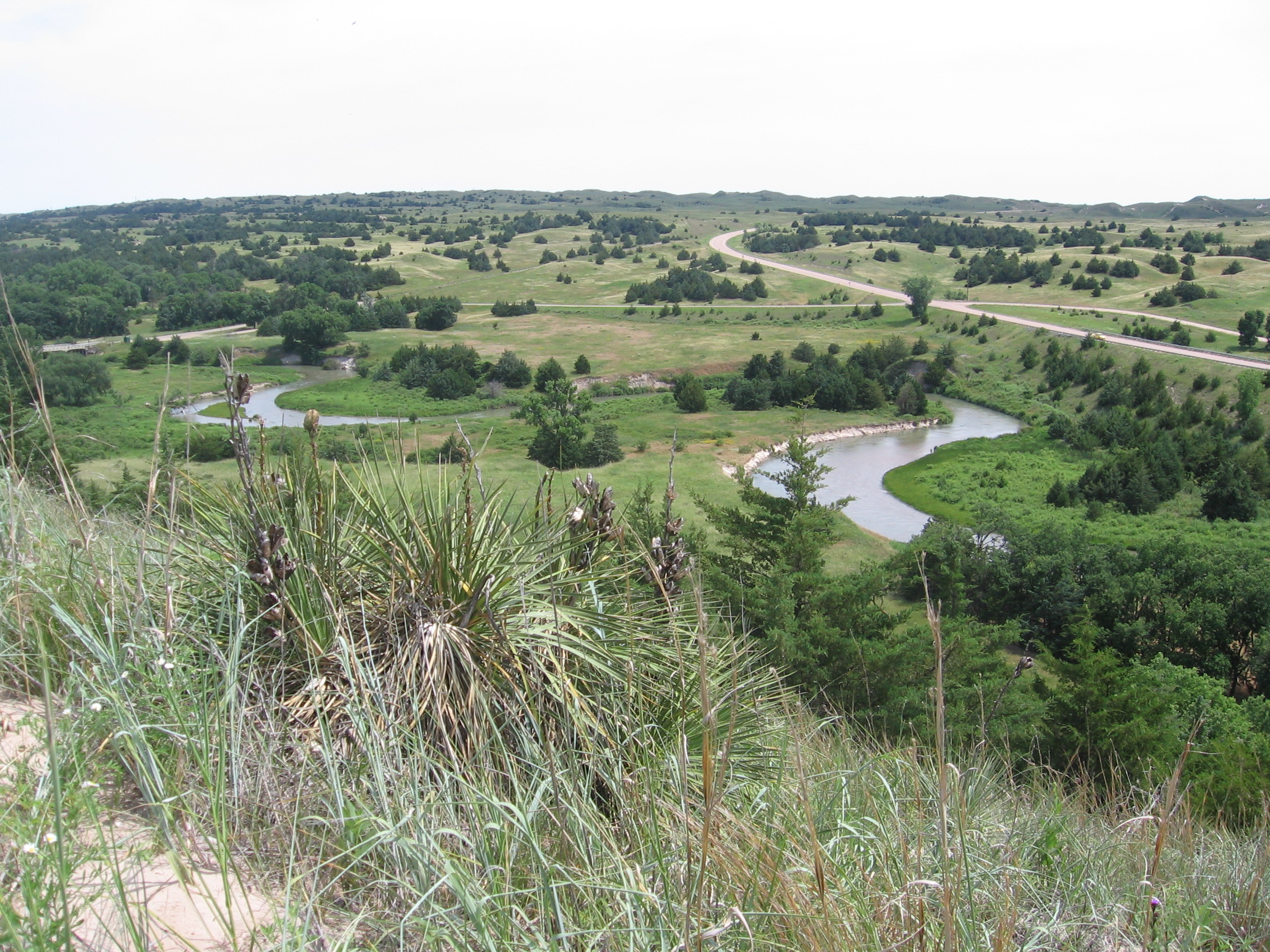 A view of the Dismal River and Nebraska Sandhills in Thomas County, in 2007. I took this photo myself. Also in this photo is U.S. Route 83.